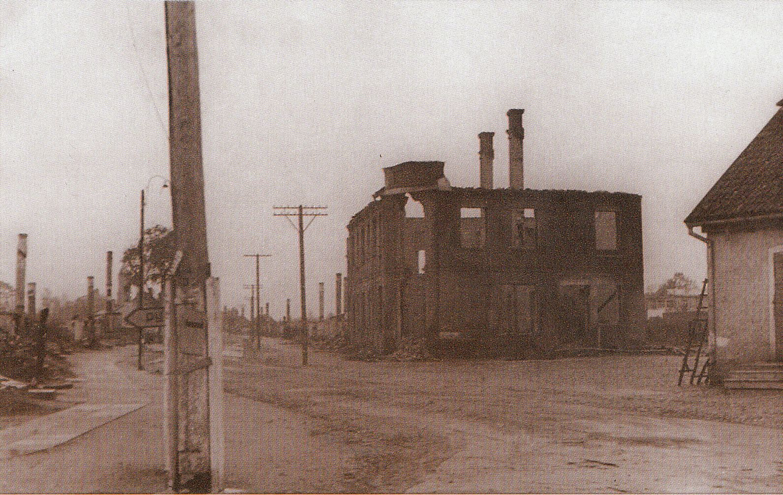 City centre of Tõrva after the Second World War